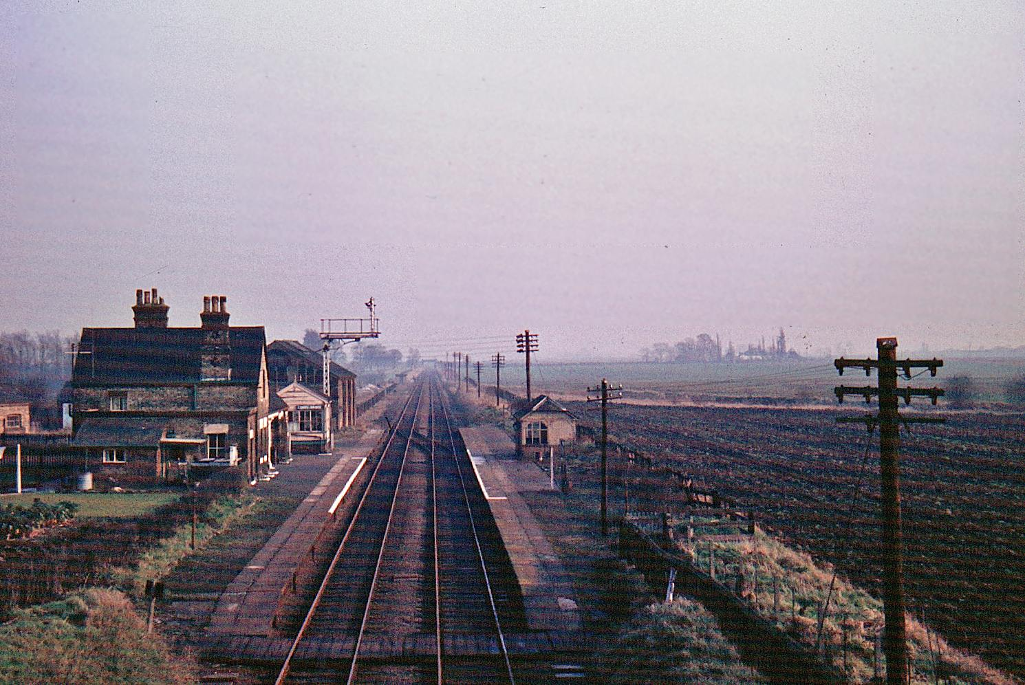 Lords Bridge station